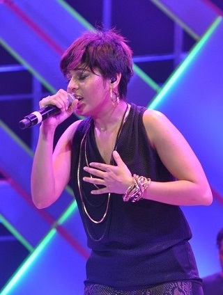 Sunidhi grace Channel V India Fest